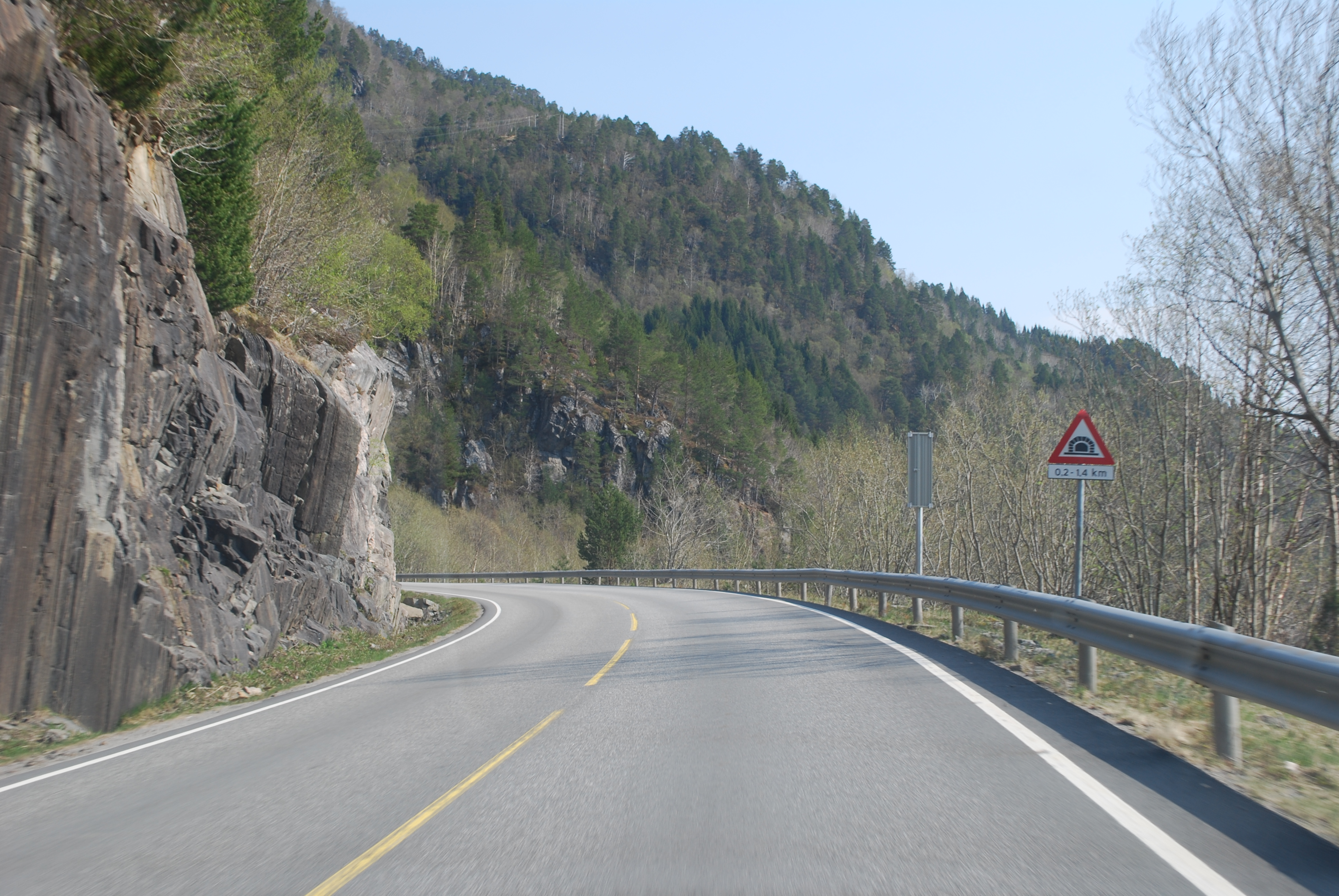 Riksvei 70 in Kansdalen, about 200 meters before Kansdaltunnelen (sign).